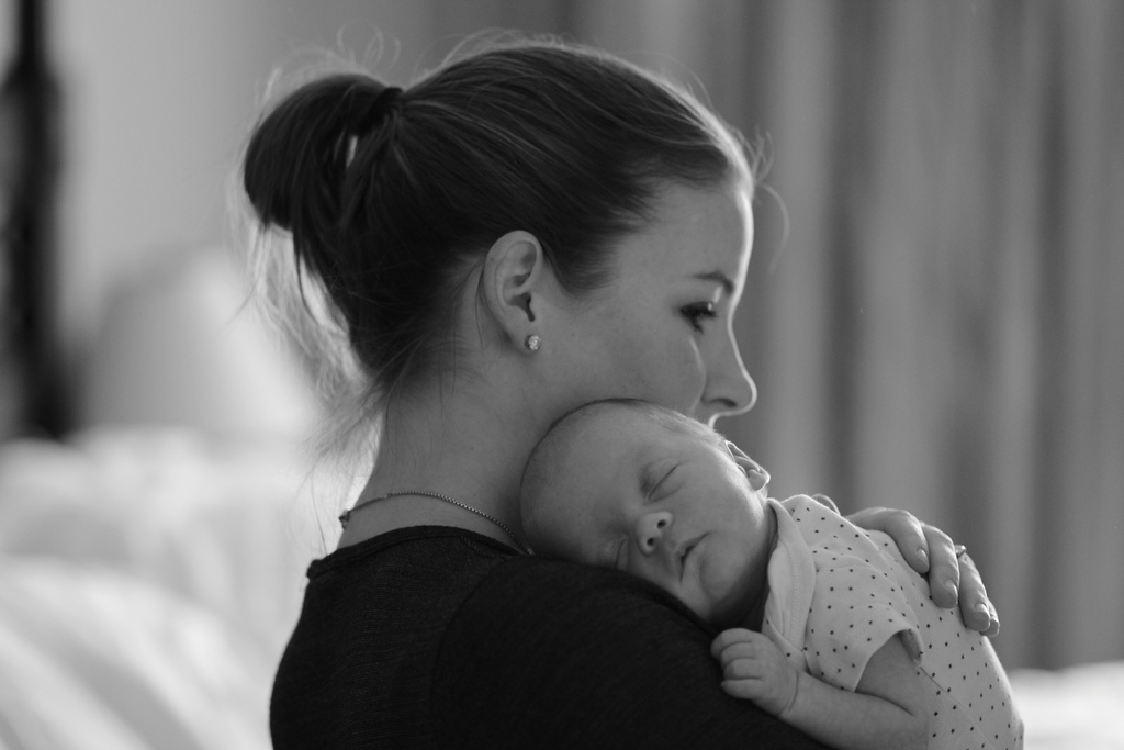 Mother's Love